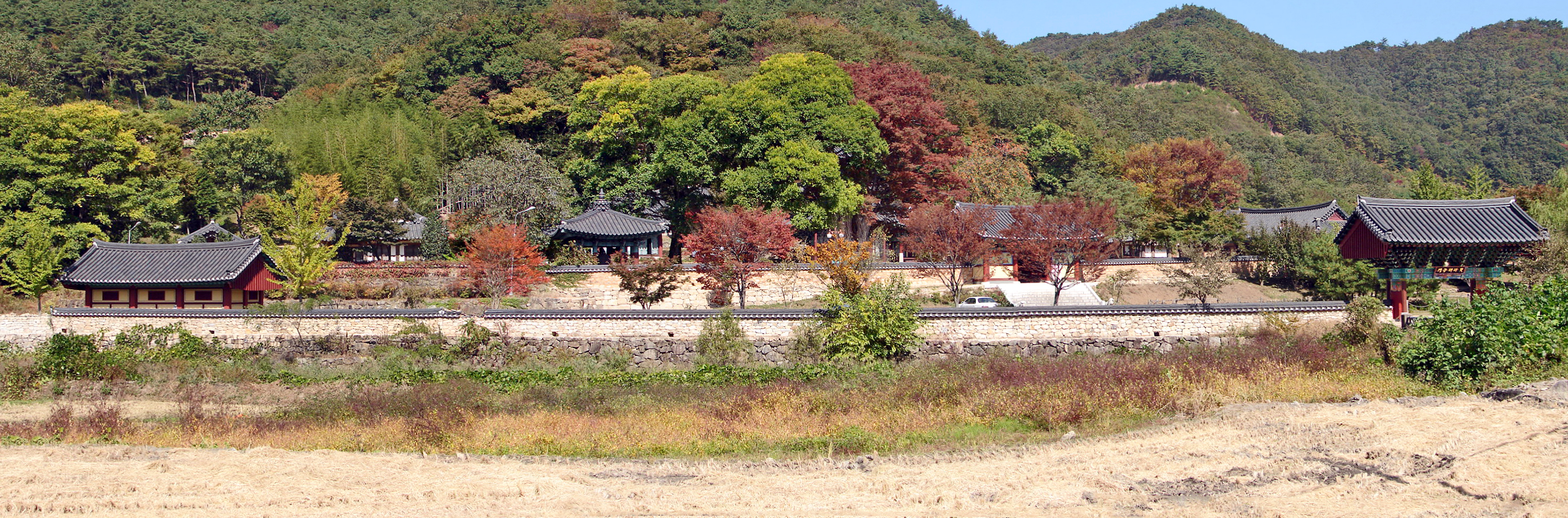 Ssangbongsa, or Ssangbong Temple (Ssang means 'twin' and Bong means 'peak' ), derives its name from the pair of twin peaks on the mountain behind this Buddhist temple. Ssangbongsa in located in Hwasun County, South Jeolla Province, South Korea. Ssangbongsa was built by Zen Priest Cheolgam in 868 during the Unified Silla Period.